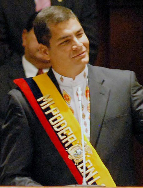 Rafael Correa during his inaugural speech as president of Ecuador